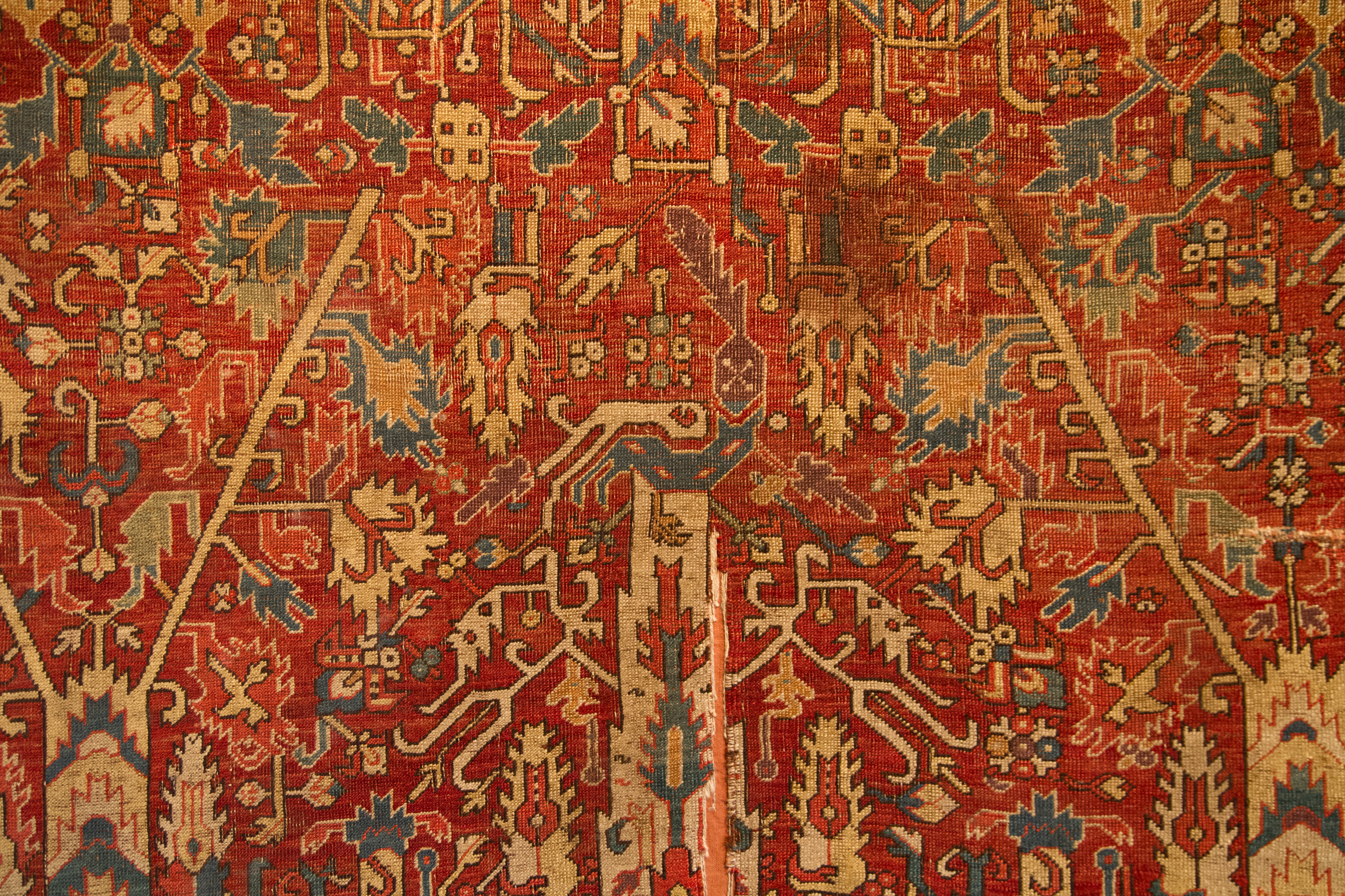 Turkish carpet from the Caucasus region, exposed at the Turkish and Islamic Arts Museum in Istanbul. 18th century, obtained from the storehouse of the Evkaf Trust in Tokat. Inventory number 887.